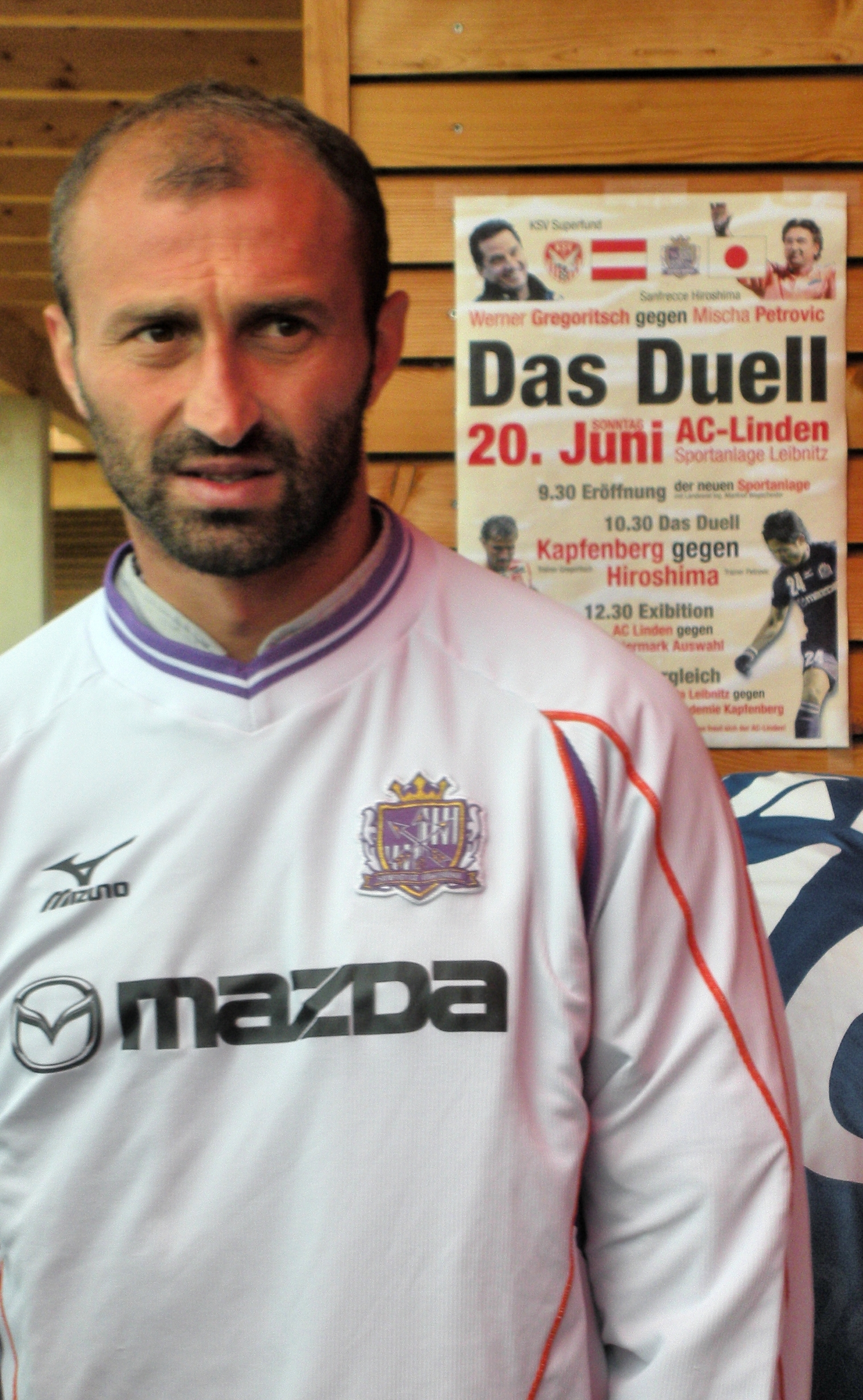 Bulgarian Ilian Stoyanov as player of Sanfrecce Hiroshima (Japan) shortly before an international pre-season friendly on 20 June 2010 against Kapfenberger SV from Austria at the football ground of LAC-Linden in Leibnitz (Styria / Austria)